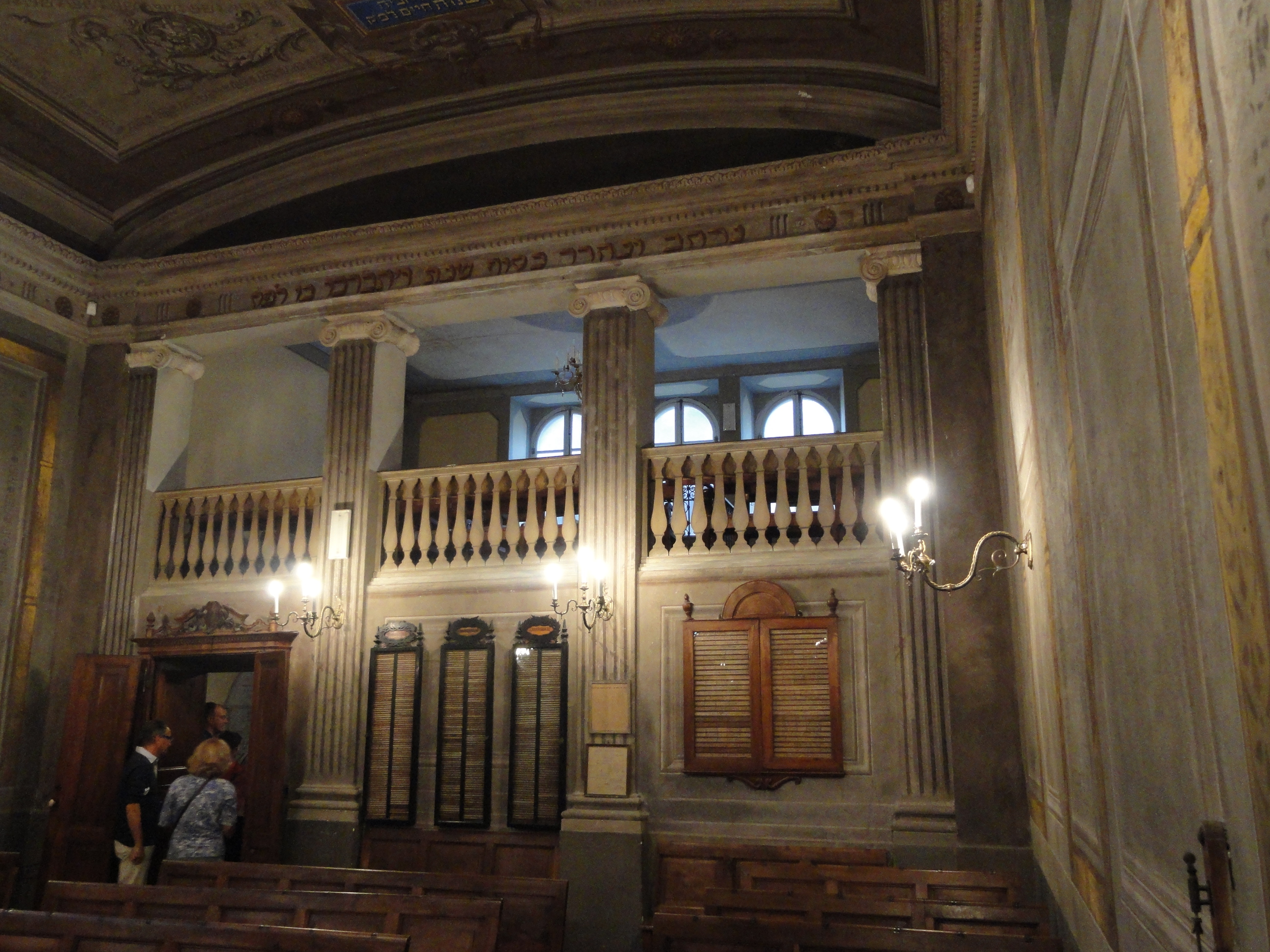 Synagogue of Cuneo (Piedmont -Italy)- The back with the women's gallery